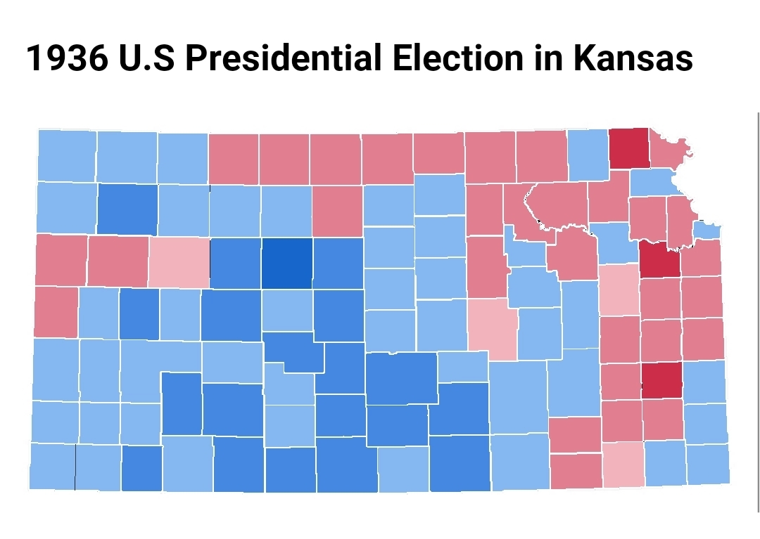 Results by county - Kansas - 1936 U.S Presidential Election